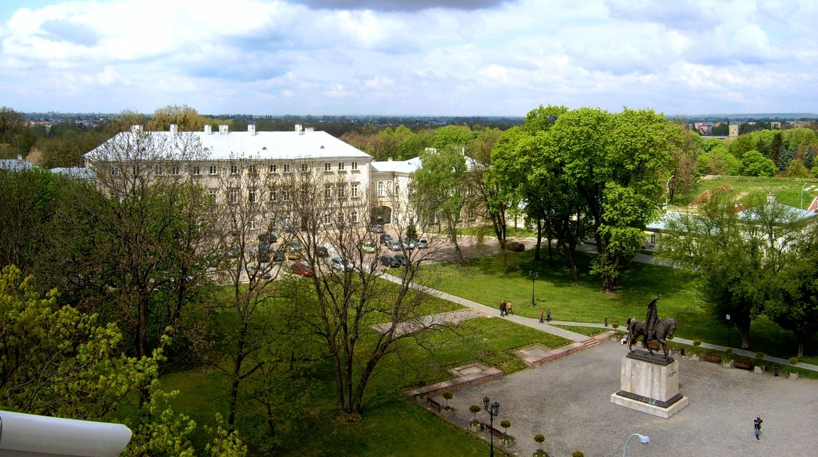 Former Zamoyski Palace and Jan Zamoyski monument in Zamość - view from bell tower of cathedral